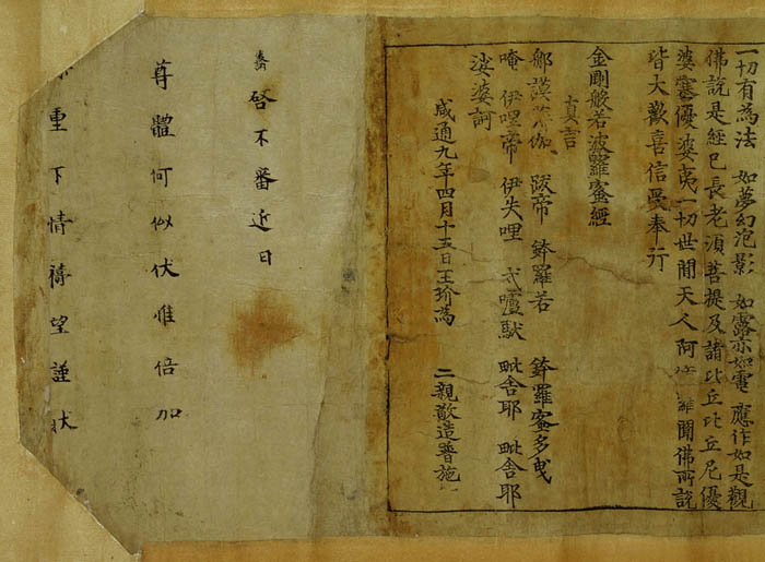 Colophon (end note) to the printed copy of the Diamond Sutra, giving its date as AD 868. Dunhuang, Cave 17.